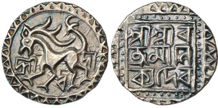 Coin of Tripura